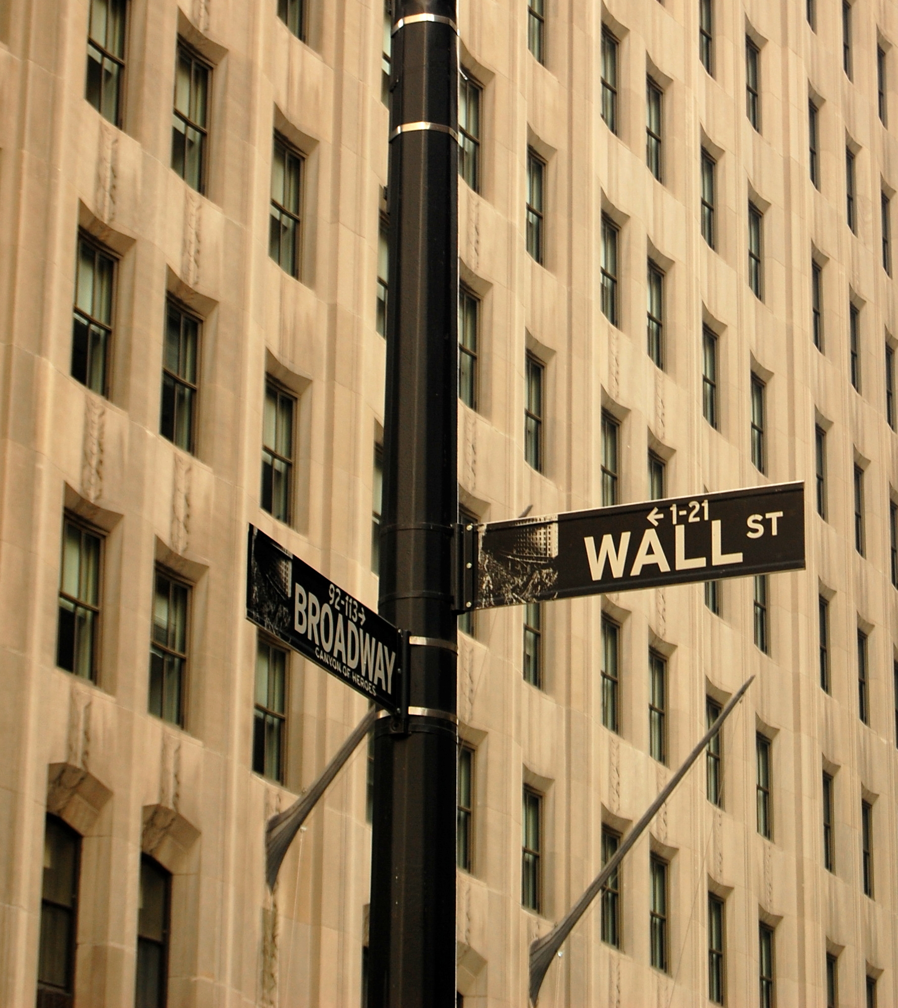 The corner of Wall Street and Broadway, showing the limestone facade of One Wall Street in the background.